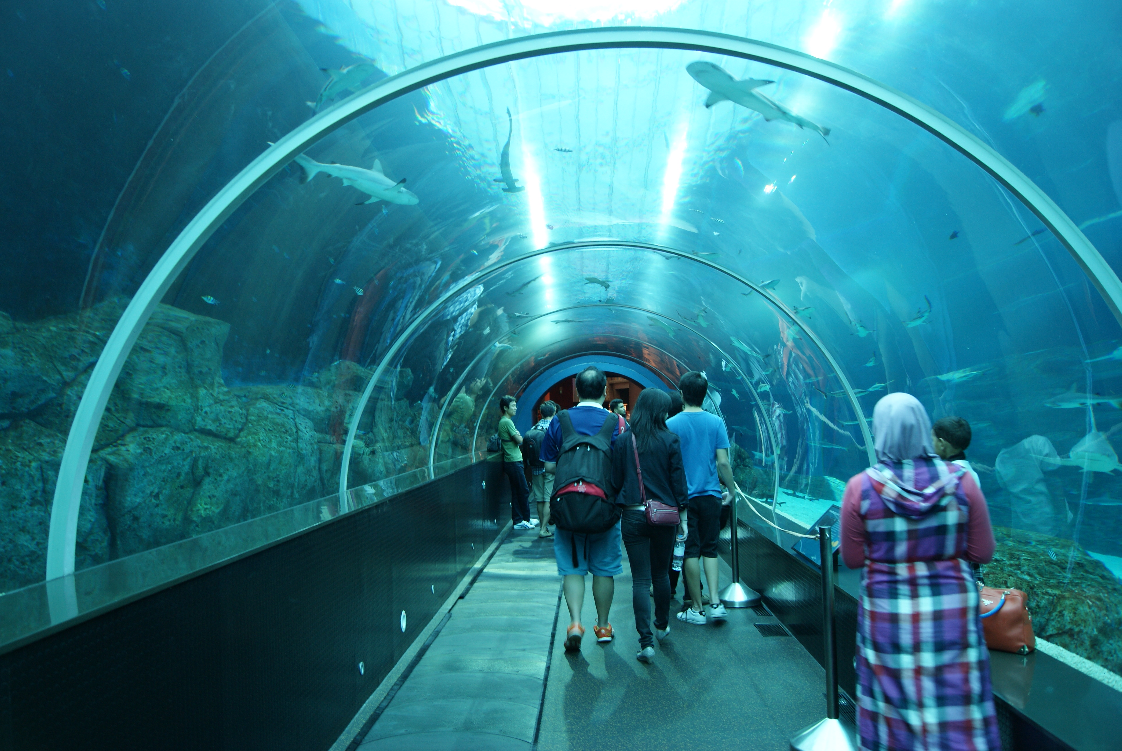 The Shark Seas section of the S.E.A. Aquarium in the Marine Life Park at Resorts World Sentosa, Singapore.